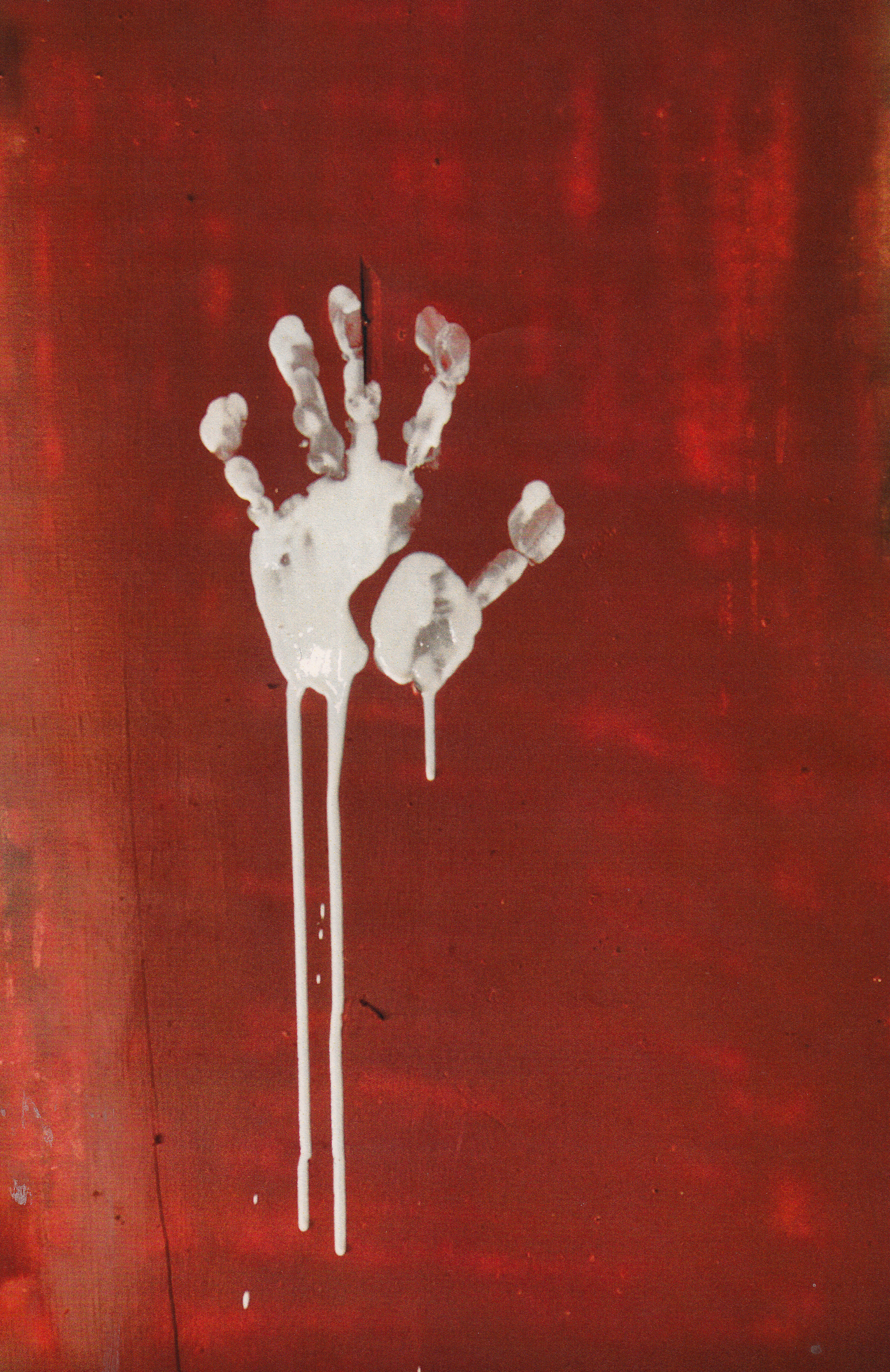 The calling card of one of the more notorious death squads in El Salvador during the Civil War...the Mano Blanco (or "White Hand"). Typically, the Mano Blanco would leave this sign (a hand dipped in white paint) on the front door of a future target or someone who they had seized and had "disappeared."